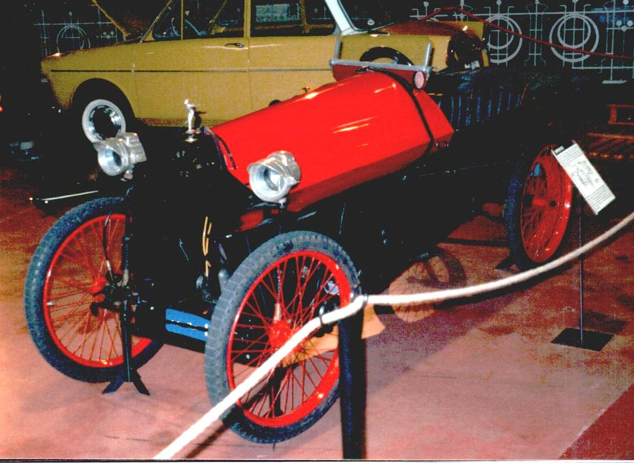 Tamplin 1921